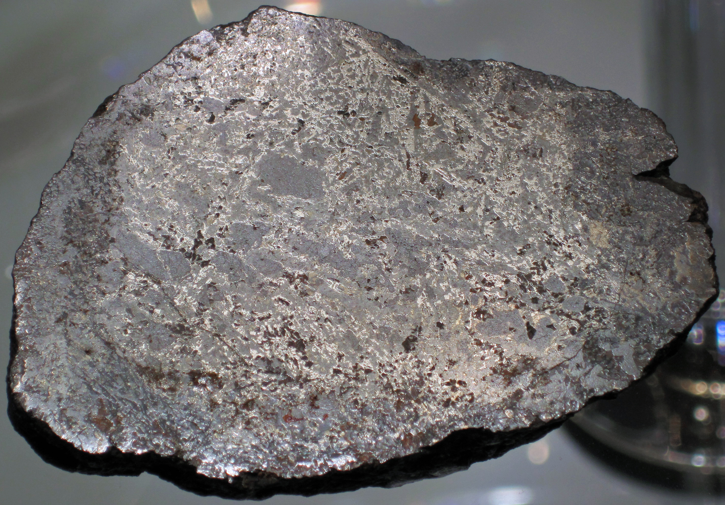 Native terrestrial iron from the Tertiary of Greenland. (Tertiary; Disko Island, Greenland)